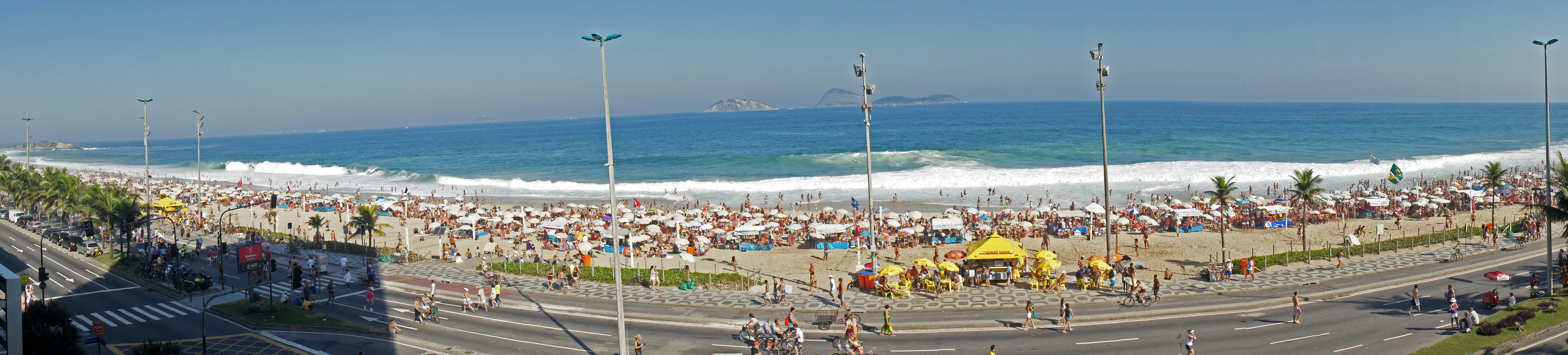 Panoramic view of Ipanema beach near Posto 9 (km 9), Rio de Janeiro, Brazil